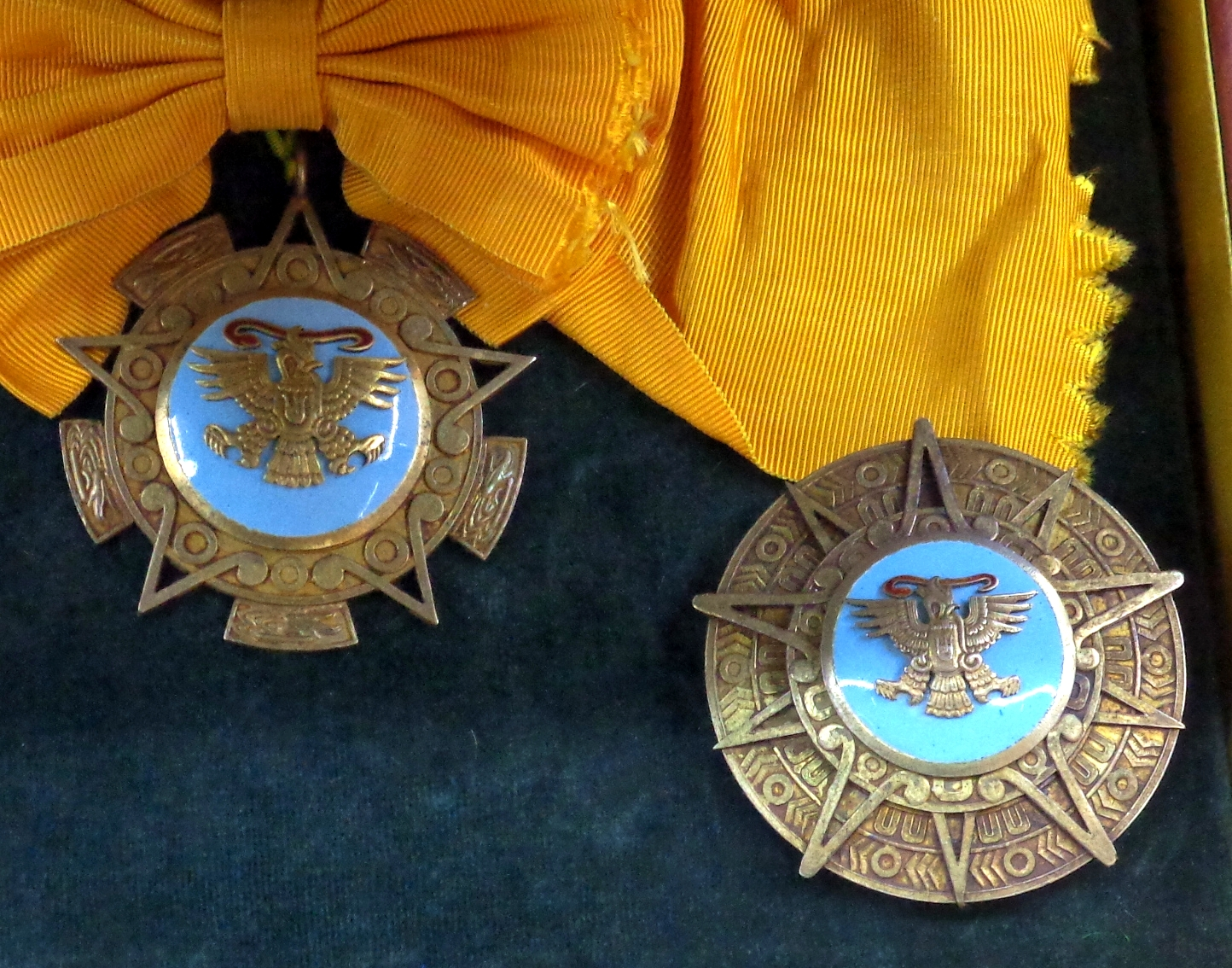 Order of the Aztec Eagle, insignias of Grand Cross. Mexico. The exhibition of the Tallinn Museum of Orders of Knighthood, Estonia.